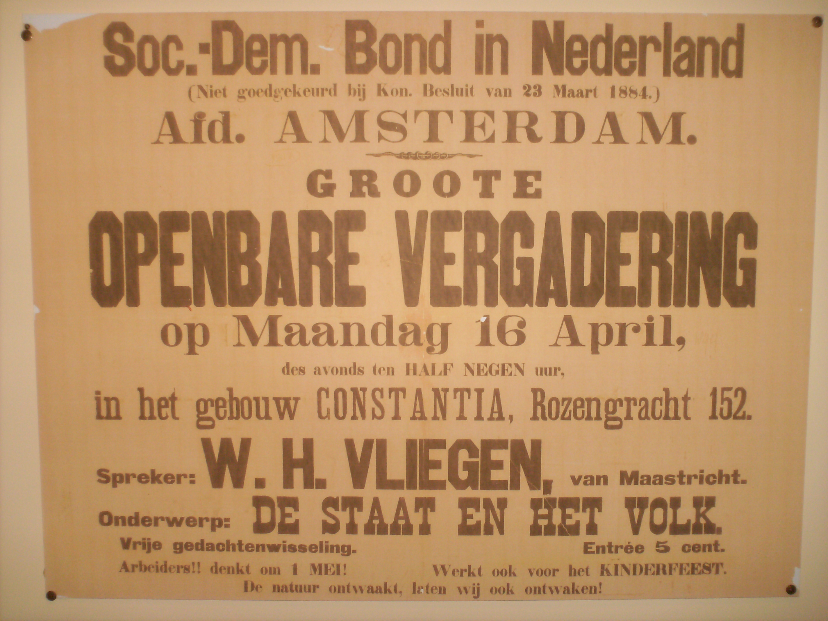 Poster by the dutch Sociaal-Democratische Bond (SDB) (chapter Amsterdam) calling for a General Assembly as exposed in the Ferdinand Domela Nieuwenhuis Museum in Heerenveen, The Netherlands